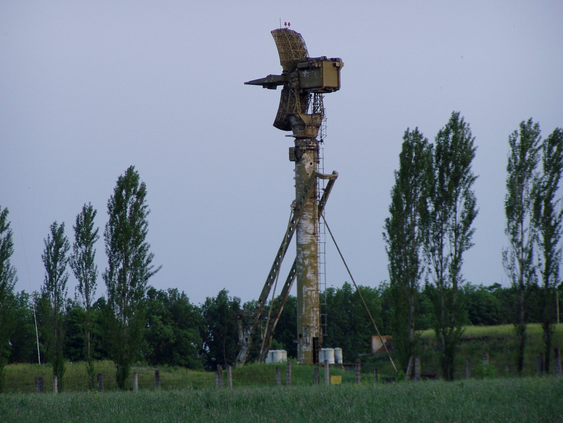 76N6 Clam Shell FMCW acquisition radar is used to support the Flap Lid SA-10 fire control radar